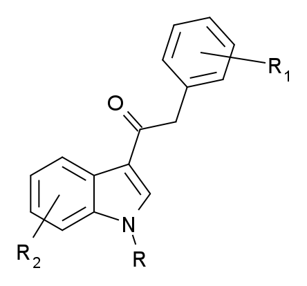 Markush structure of phenylacetylindoles